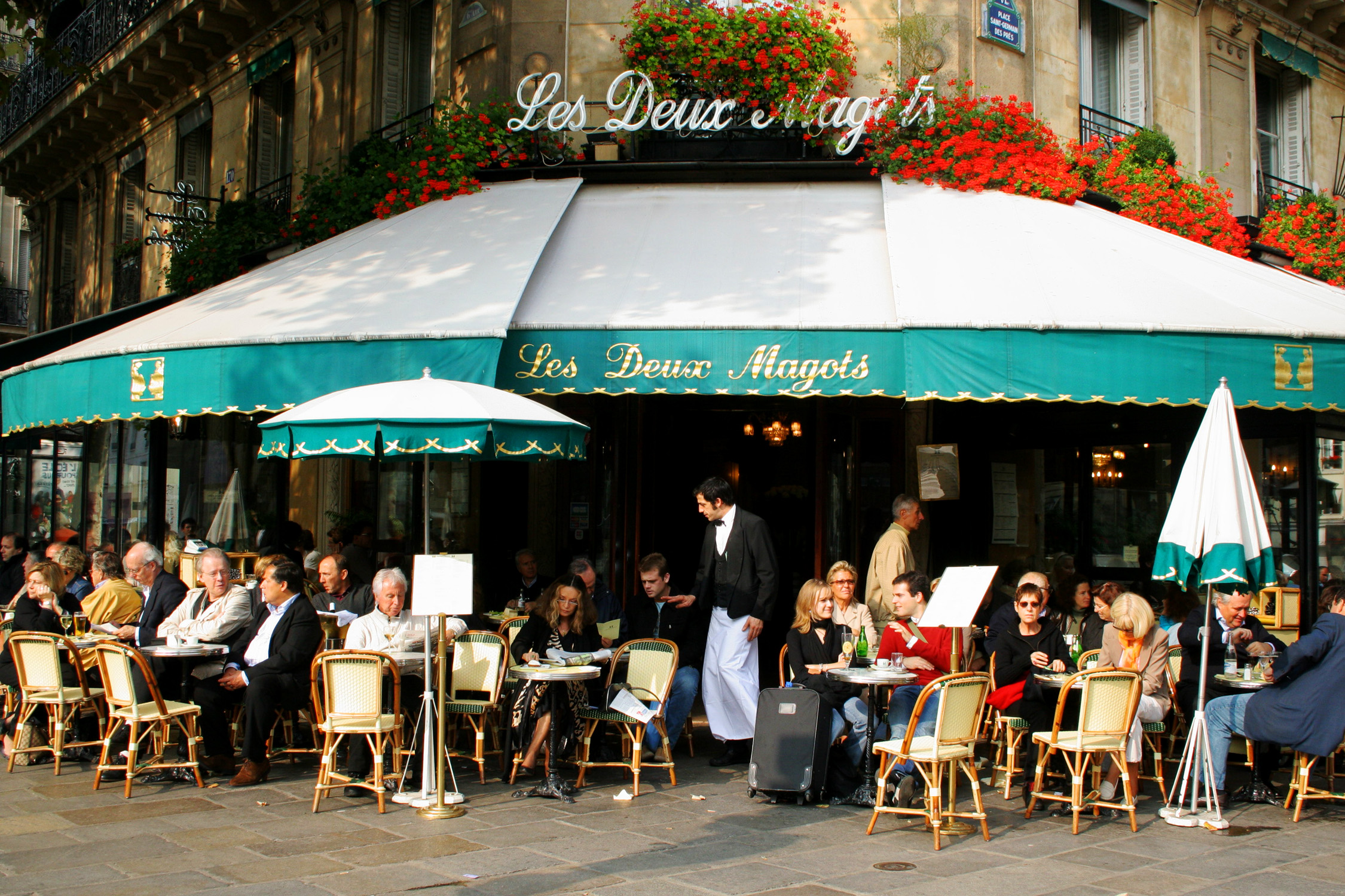 Café "les deux magots" Paris 6ème , France. Author: Robyn Lee (user roboppy) Date: October 16, 2006 URL: Uploaded by author